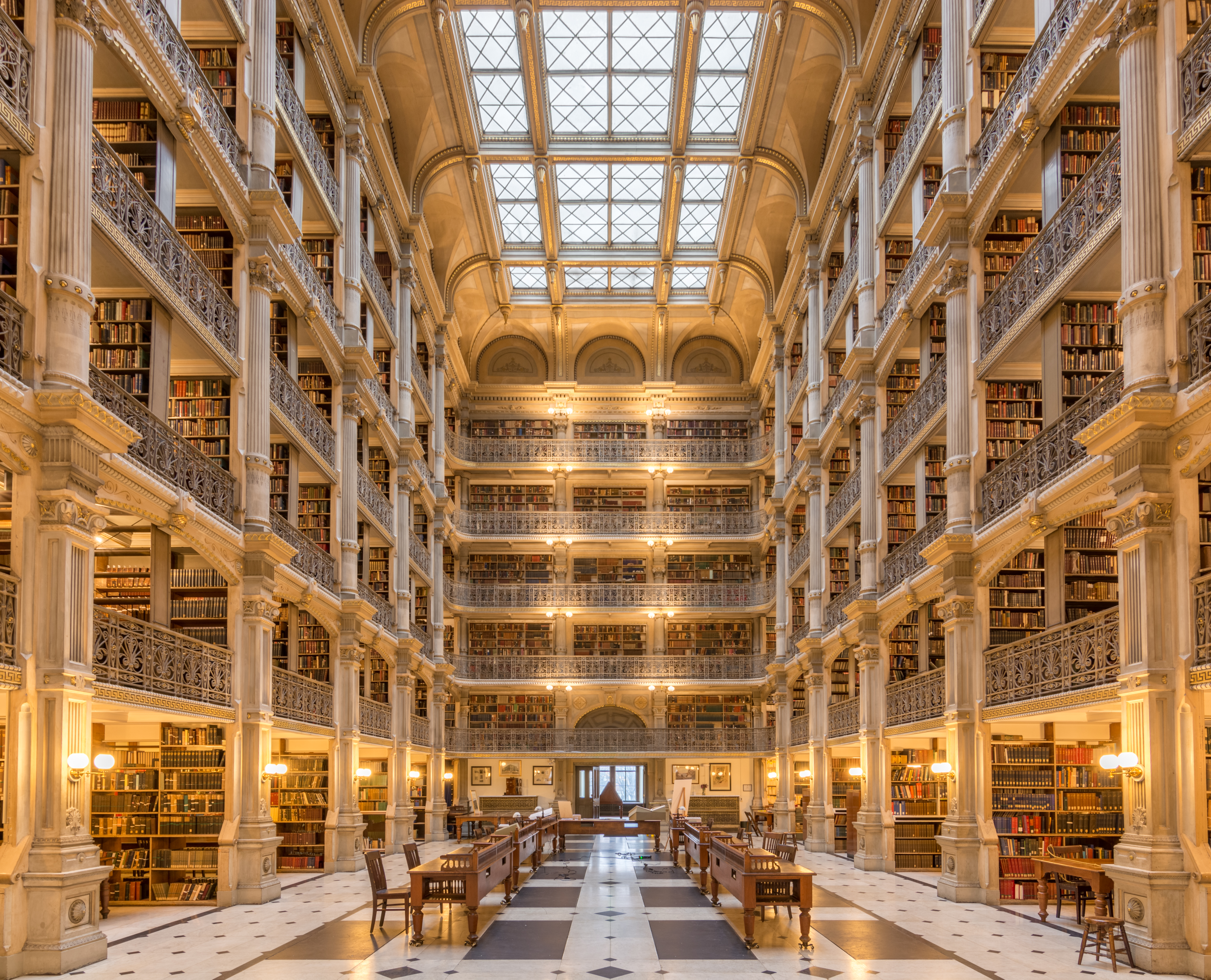 Another view of the GP Library. This version of the picture has more ceiling.